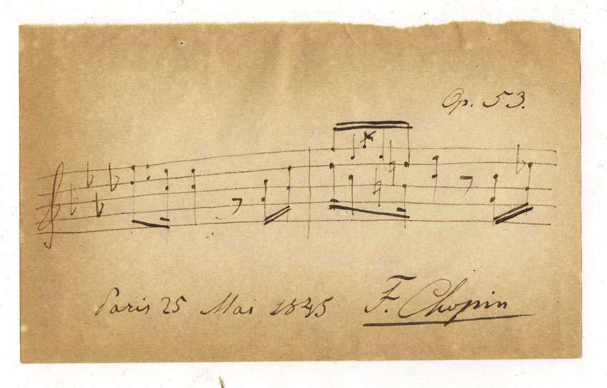 Rare Autograph Musical Quotation Signed of Frederic Chopin Op.53 Polonaise. Provenace: Private Collection.